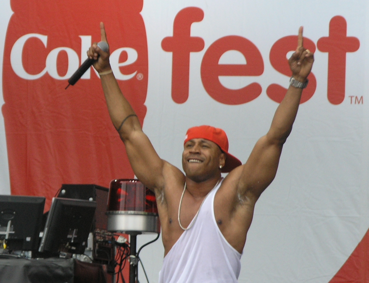 Taken during MyCokeFest at Centennial Olympic Park in Atlanta